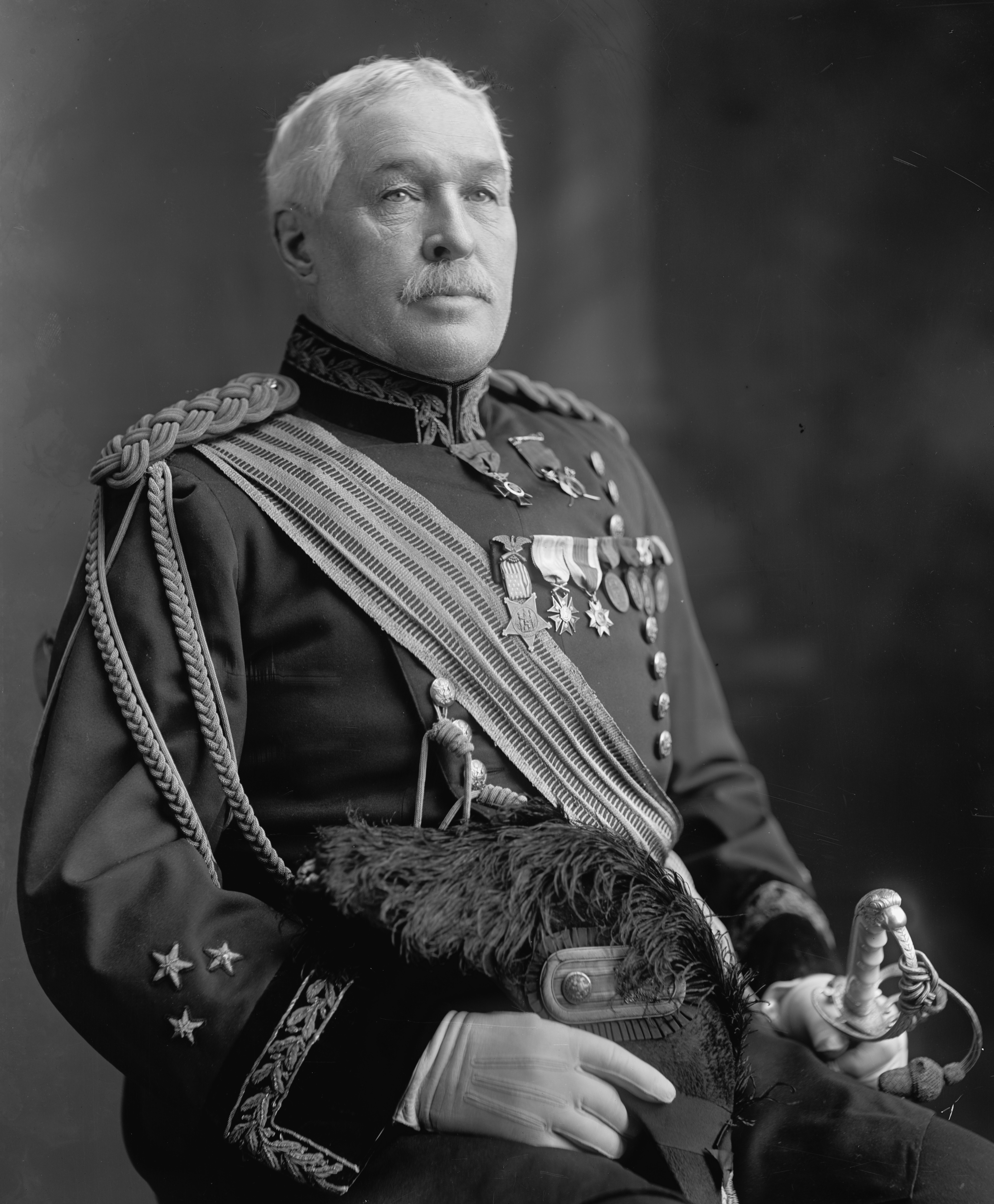 Title: YOUNG, S.B.M. GENERAL Abstract/medium: 1 negative : glass ; 8 x 10 in. or smaller